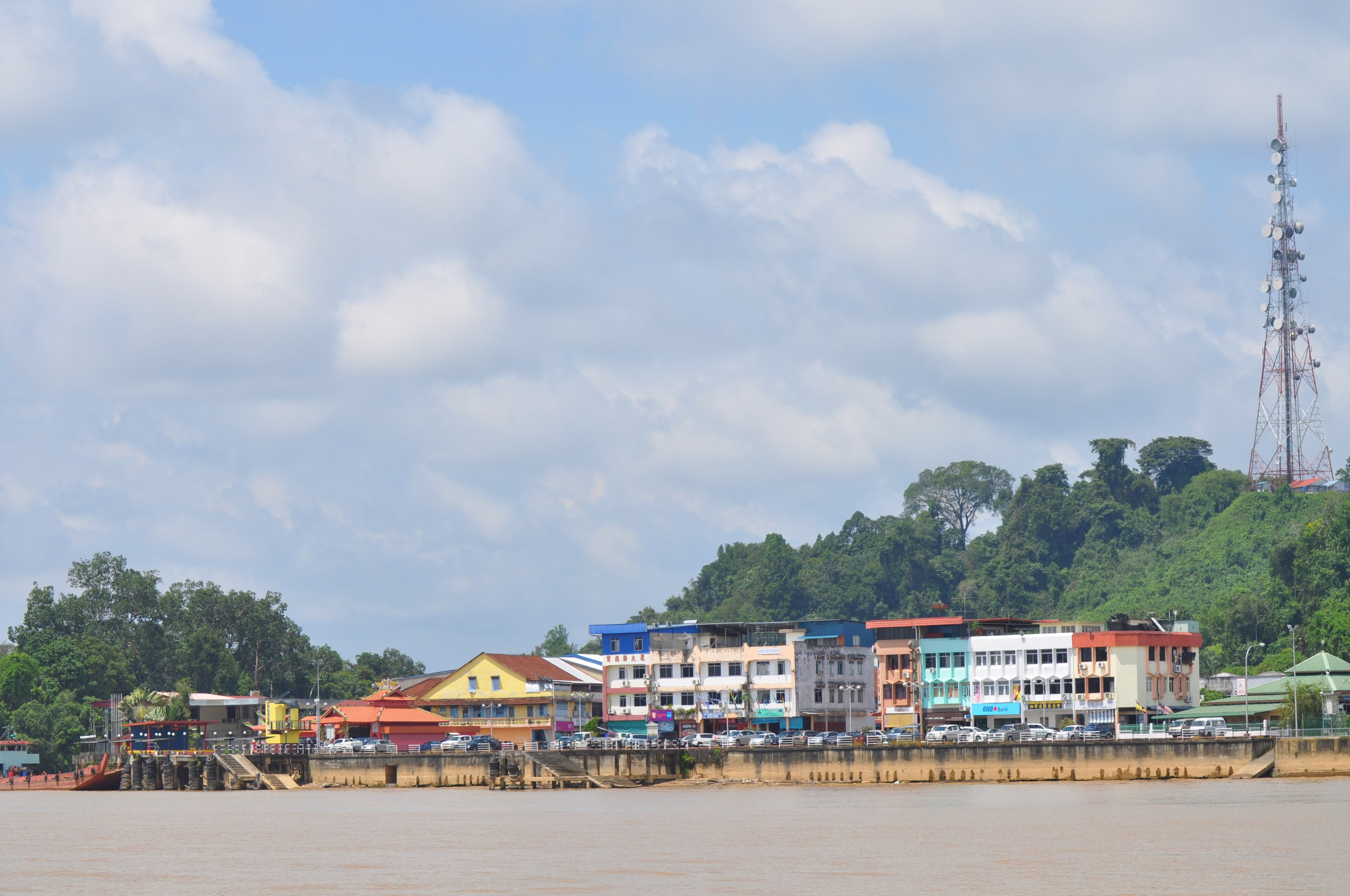 Town on Rejang River